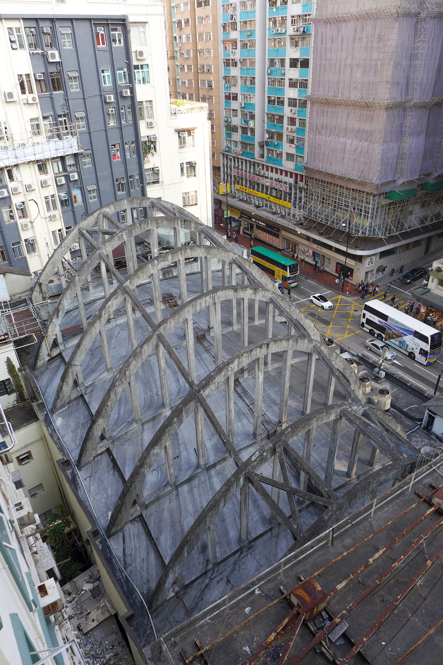 State Theatre Roof structure